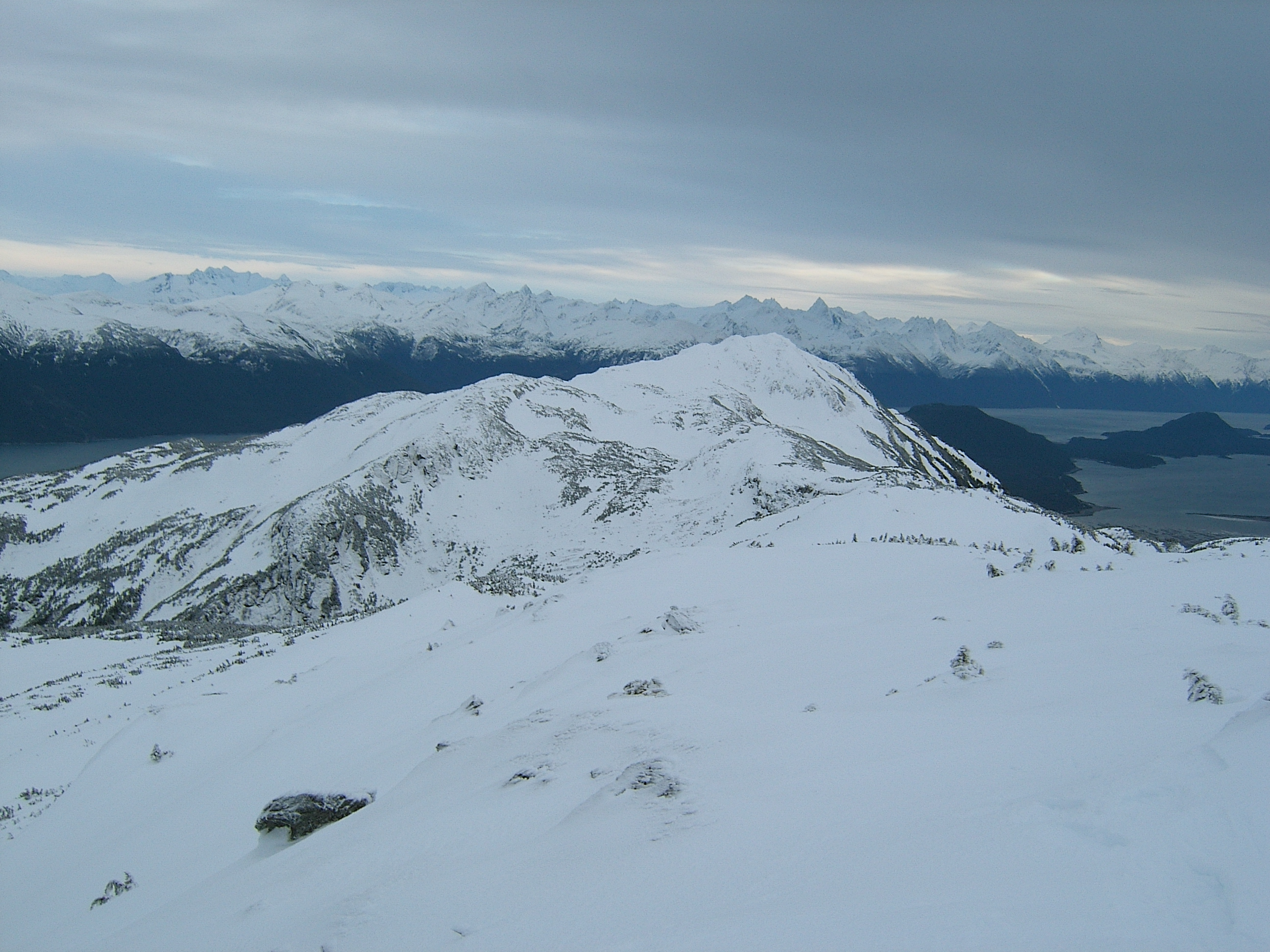 A picture of Mount Ripinski taken by me.